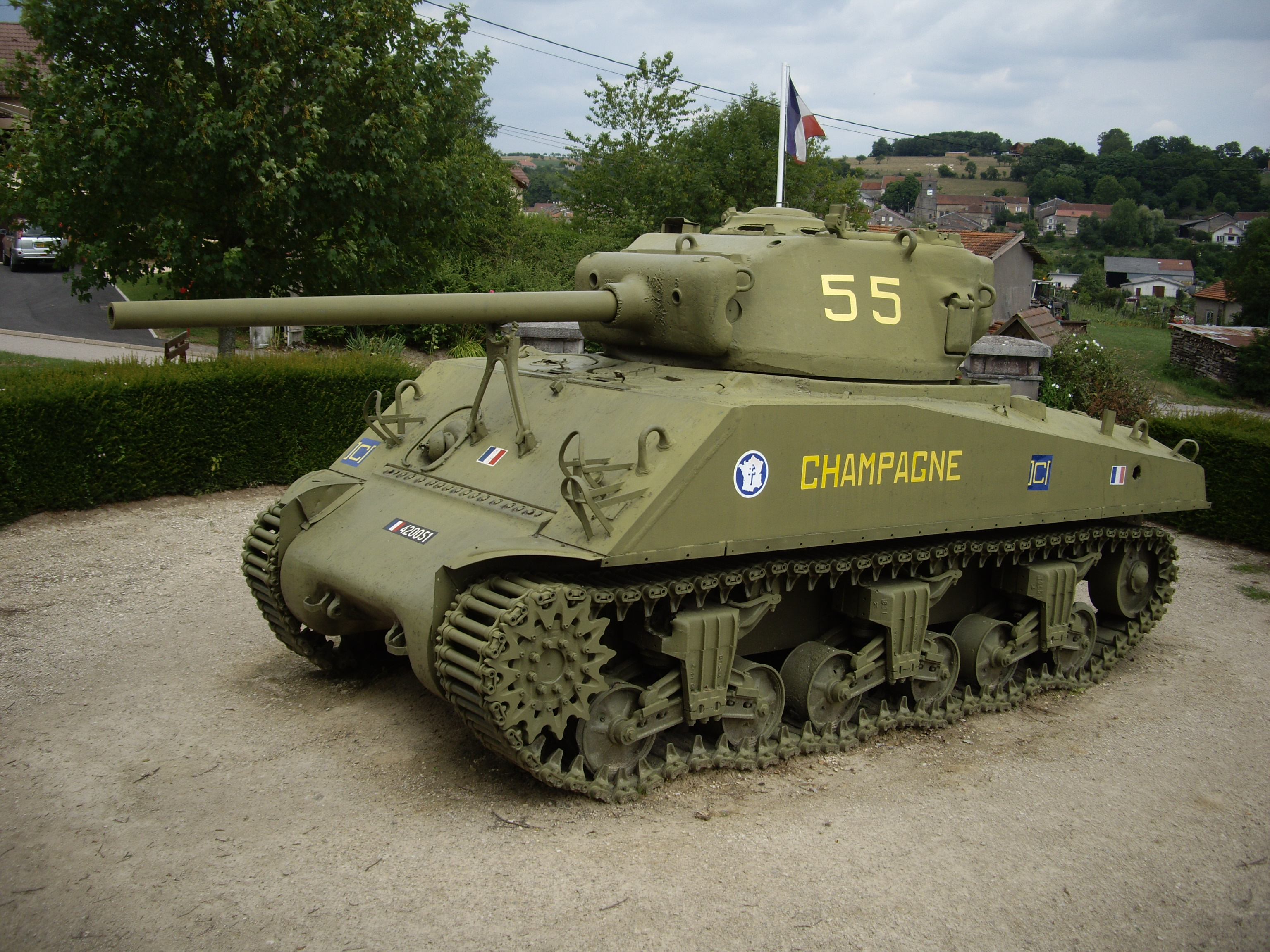 M4A3(76) Sherman tank "Champagne", from the 2nd French Armoured Division, hit on 13 September 1944, and still preserved at Ville-sur-Illon, near Dompaire (France)